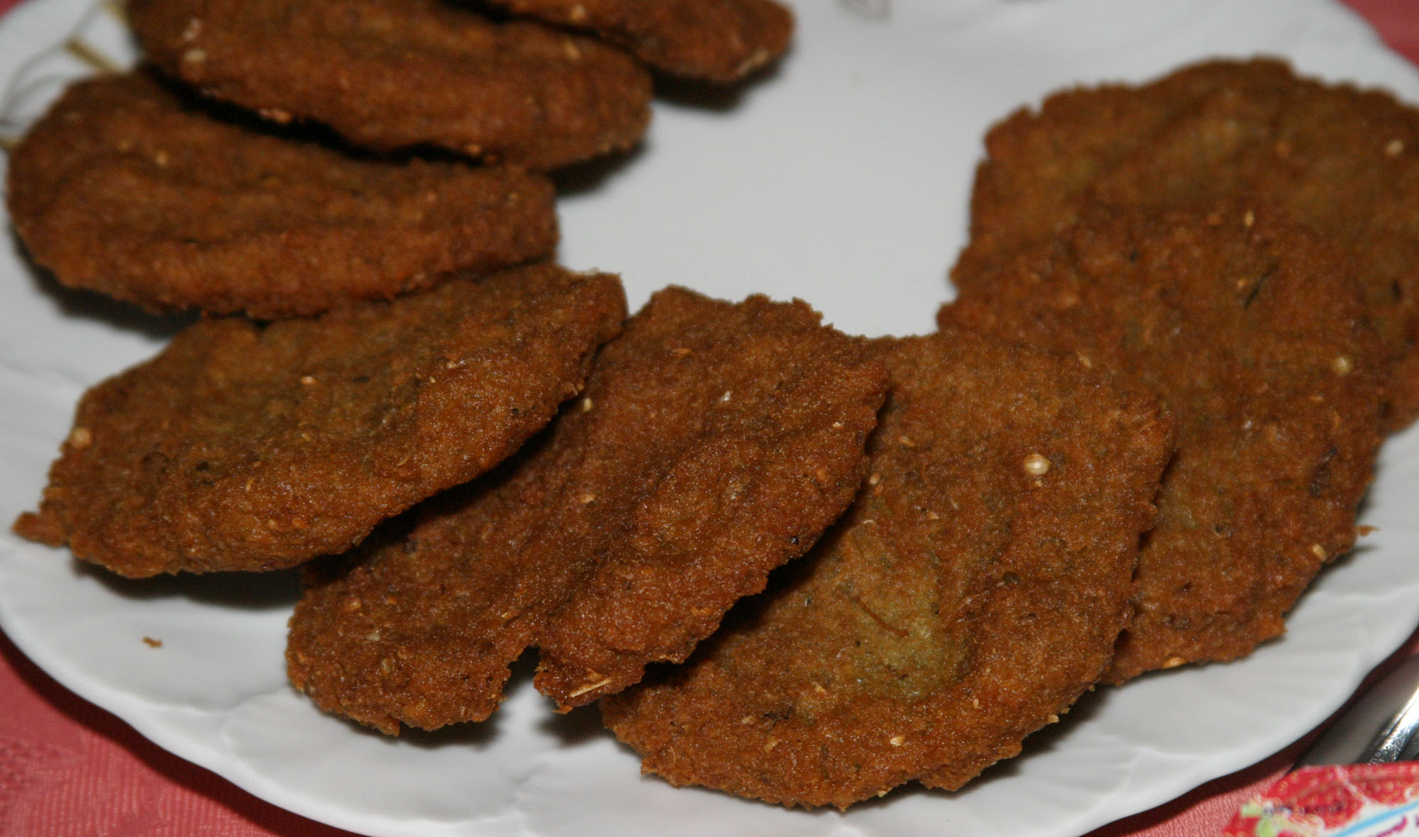 Tameya - Egyptian equivalent to Falafel